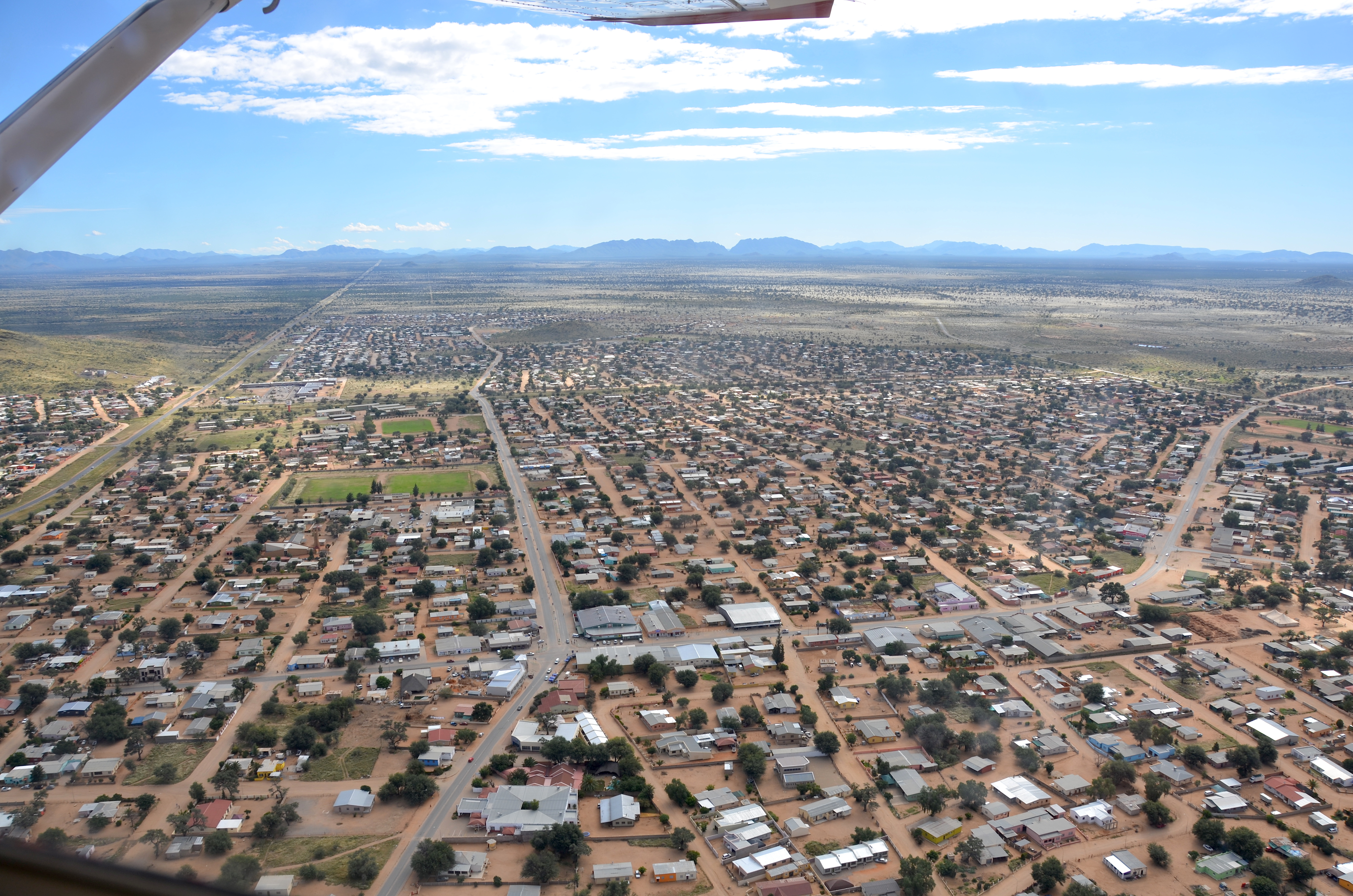 Rehoboth from Bird´s-eye view (2017)